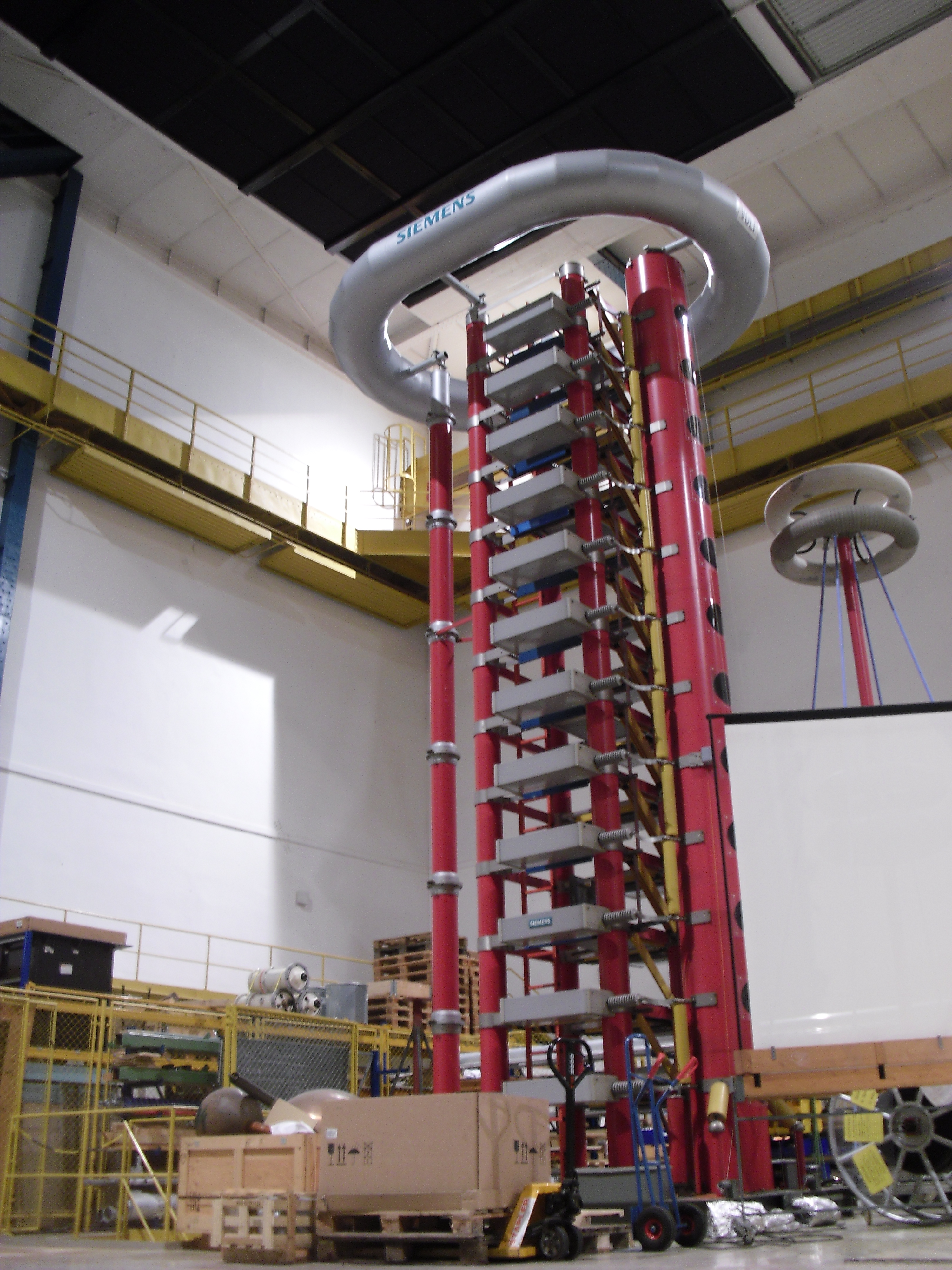 High-Voltage Impulse Test System at TU Dresden for testing electric transmission line components. The device in center is a Marx generator which produces pulses of extremely high voltage.